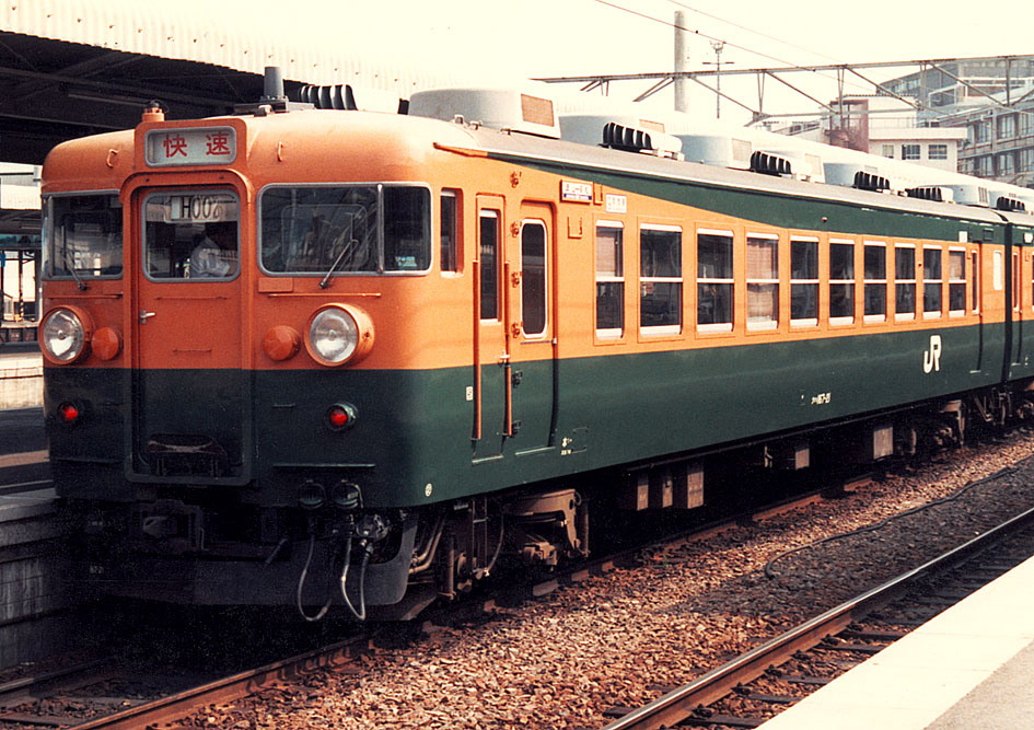 JNR Kuha 167-21 electric car